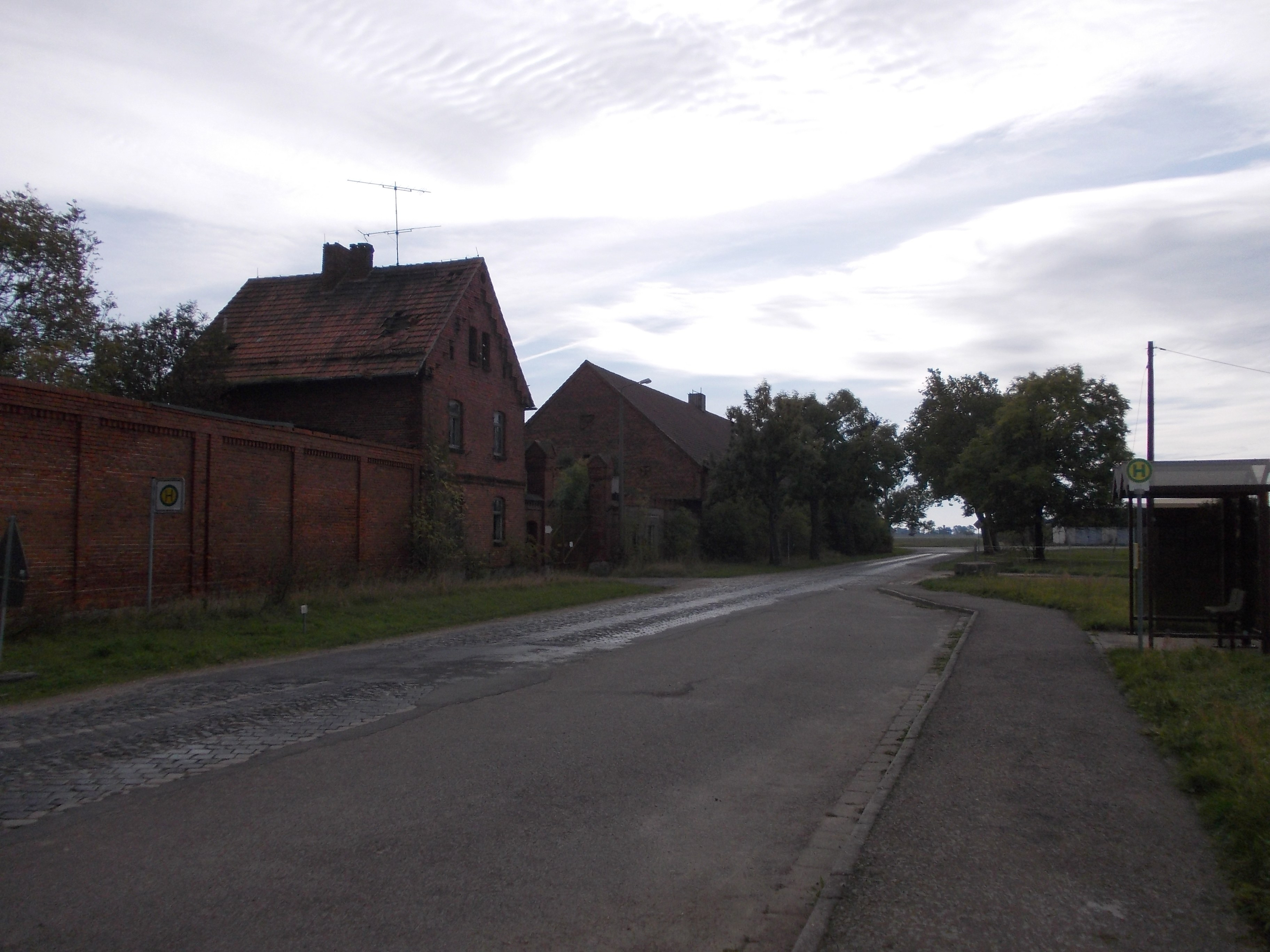 Mühlberger Strasse in Packisch (Arzberg, Nordsacsen district, Saxony).